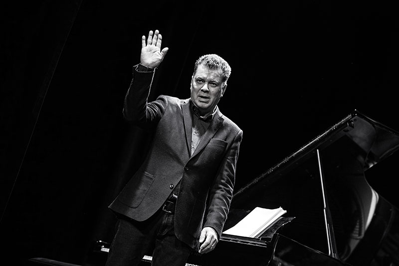 Jukkis Uotila in Aarhus Denmark 2018